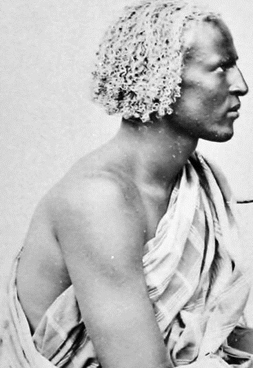 Studio portrait of a Somali man of the Habr Yunis tribe. | Photograph by Prince Roland Bonaparte, for the 'Exposition Universelle, Paris, 1889'